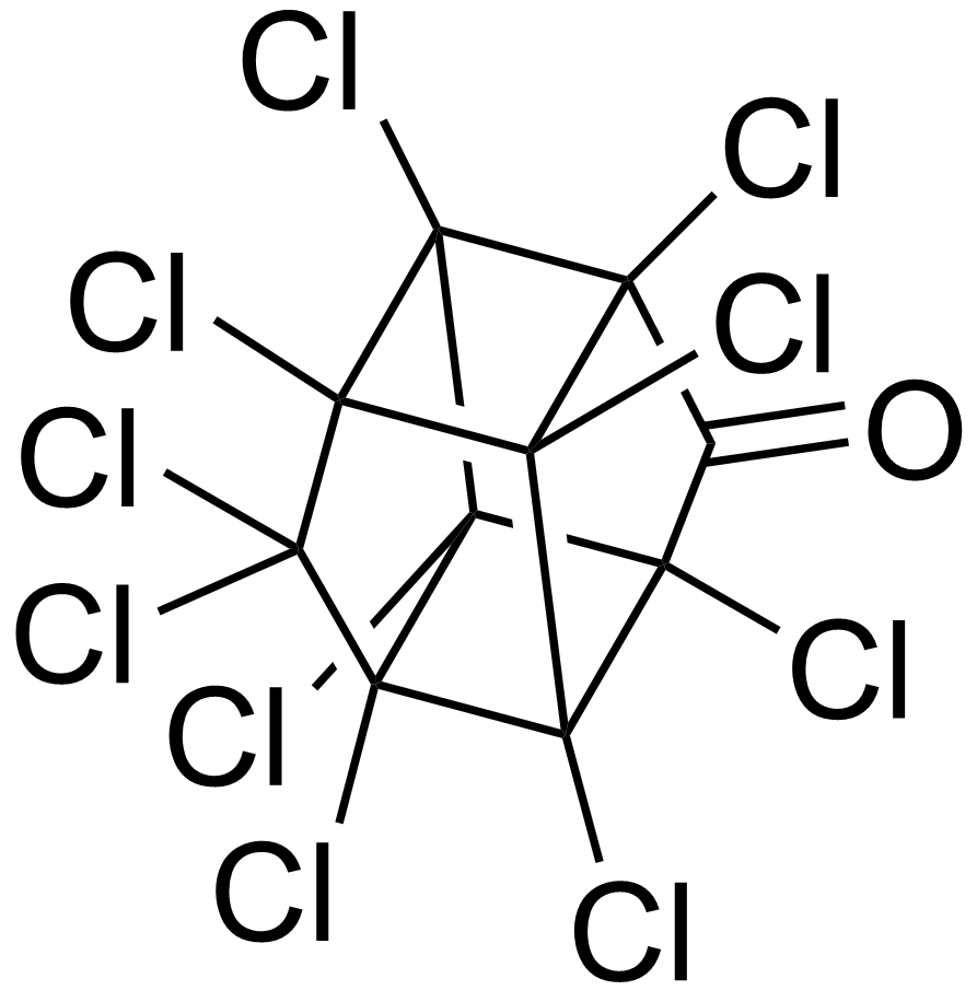 chemical structure of kepone (chlordecone) created with chemdraw